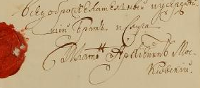 Autograph of Platon (Piotr Georgievich Levshin), Metropolitan of the Russian Orthodox Church